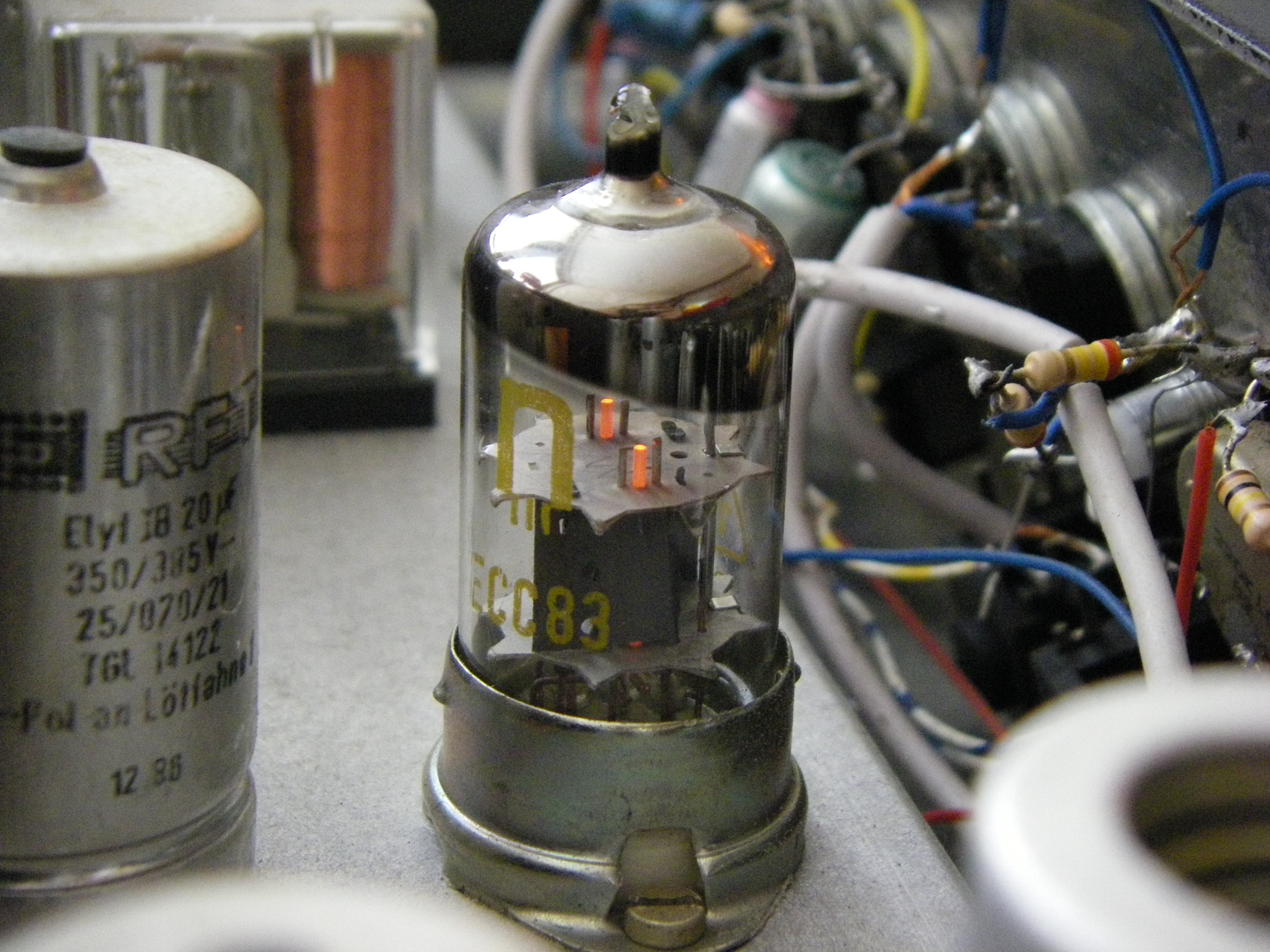 ECC83 tube